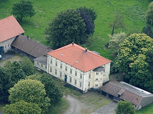 Gut Scheda (früher Kloster Scheda) in Wickede (Ruhr)-Wiehagen. Fotoflug Sauerland Nord. The making of this document was supported by the Community-Budget of Wikimedia Germany.